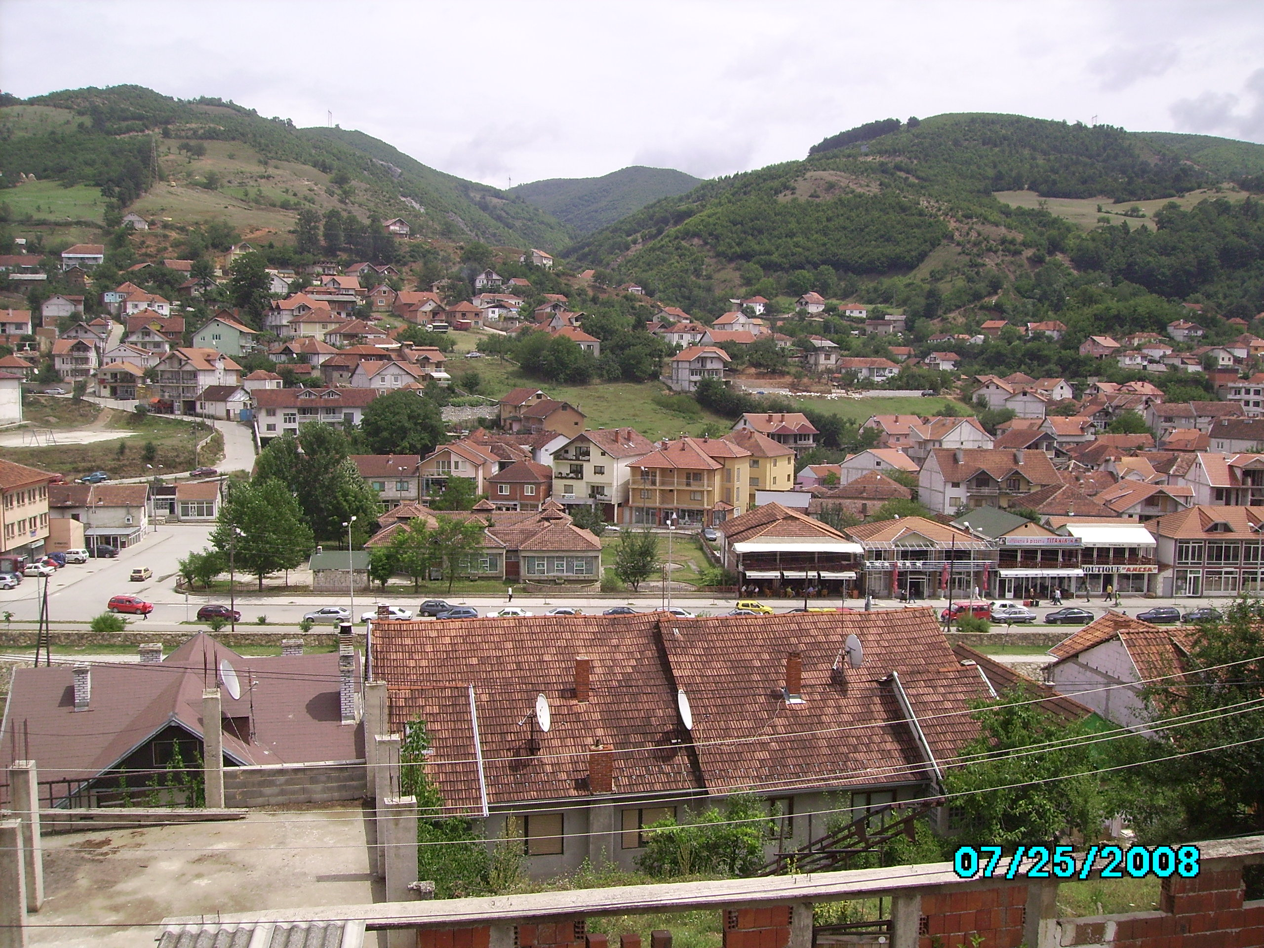 Kačanik from the west